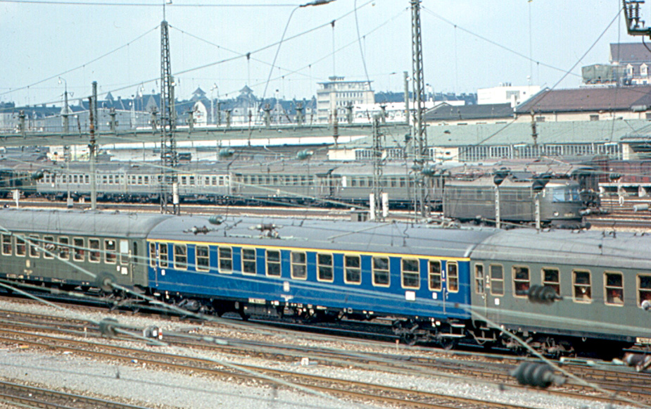 A first-class coach in the yard outside the main station in Munich, in a train with second-class cars. The electric locomotive in the right background may be class E18 (118). Further back on the left are two "Silberling" coaches with stainless steel siding.